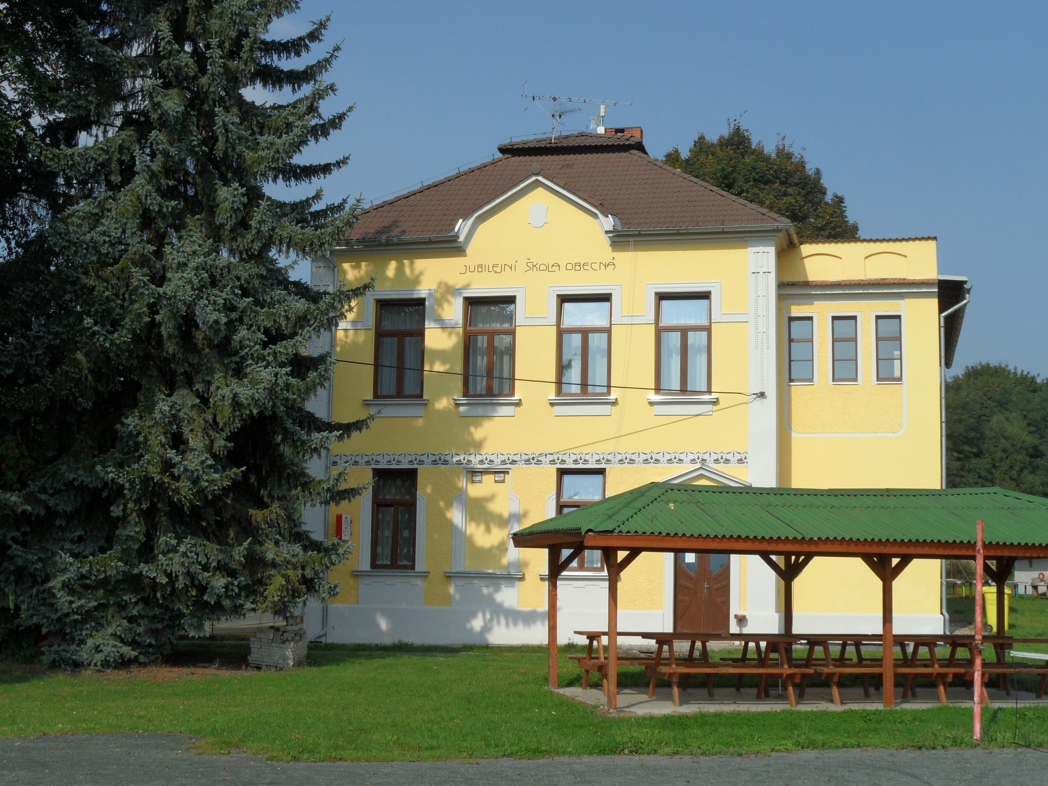 Holšice A. Former Schoolhouse, Reconstructed to Community Centre, Kutná Hora District, the Czech Republic.